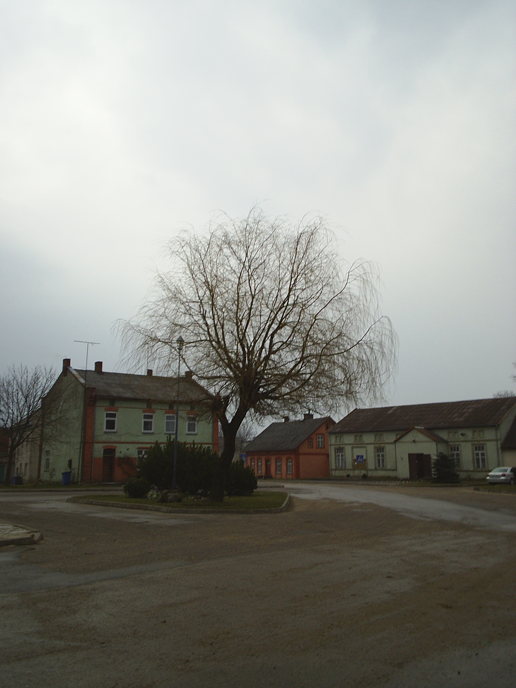 Natkiškiai